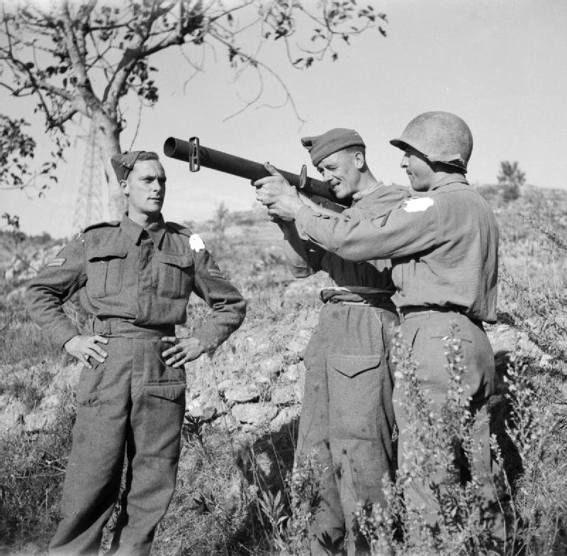 The British Army in Italy 1943 An American soldier instructs Guards NCOs in the use of the M1A1 bazooka, 3 November 1943.